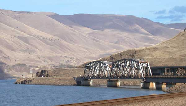 Railroad bridge spanning the mouth of the John Day River on the Columbia River in eastern Oregon (taken Oct. 20, 2004) © 2004 Matthew Trump